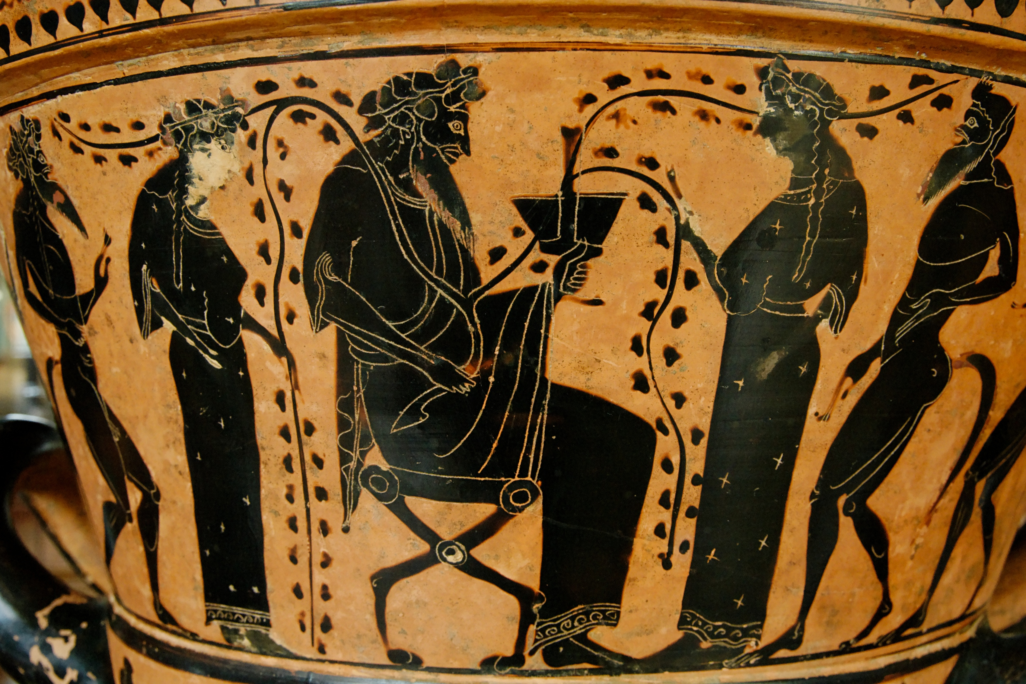 Dionysos and his thiasus. Upper tier of an Attic black-figure krater-psykter.